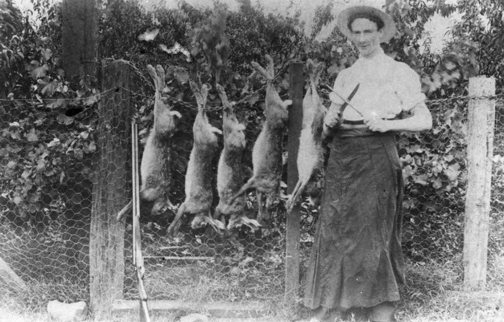 Photographer: Unidentified Location: Queensland, Australia Date: Undated Description: Five dead rabbits hanging on a fence. A rifle is leaning against the fence post. The person to the right is sharpening a knife. View this page at the State Library of Queensland Information about State Library of Queensland’s collection